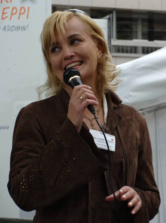 Politician (Social Democratic Party of Finland) Satu Taiveaho in Lahti